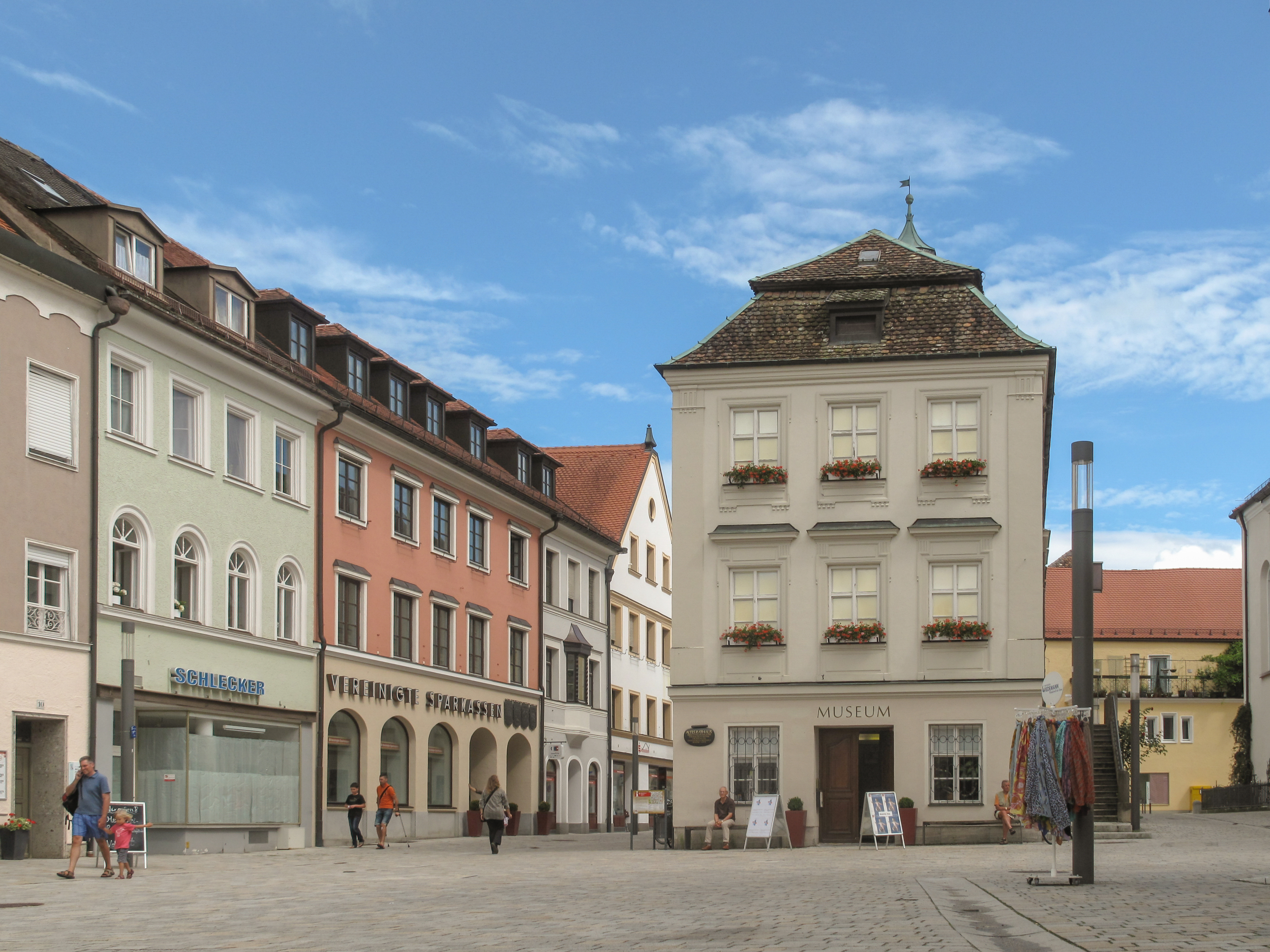 Weilheim, Stadtmuseum im Alten Rathaus from das Marienplatz